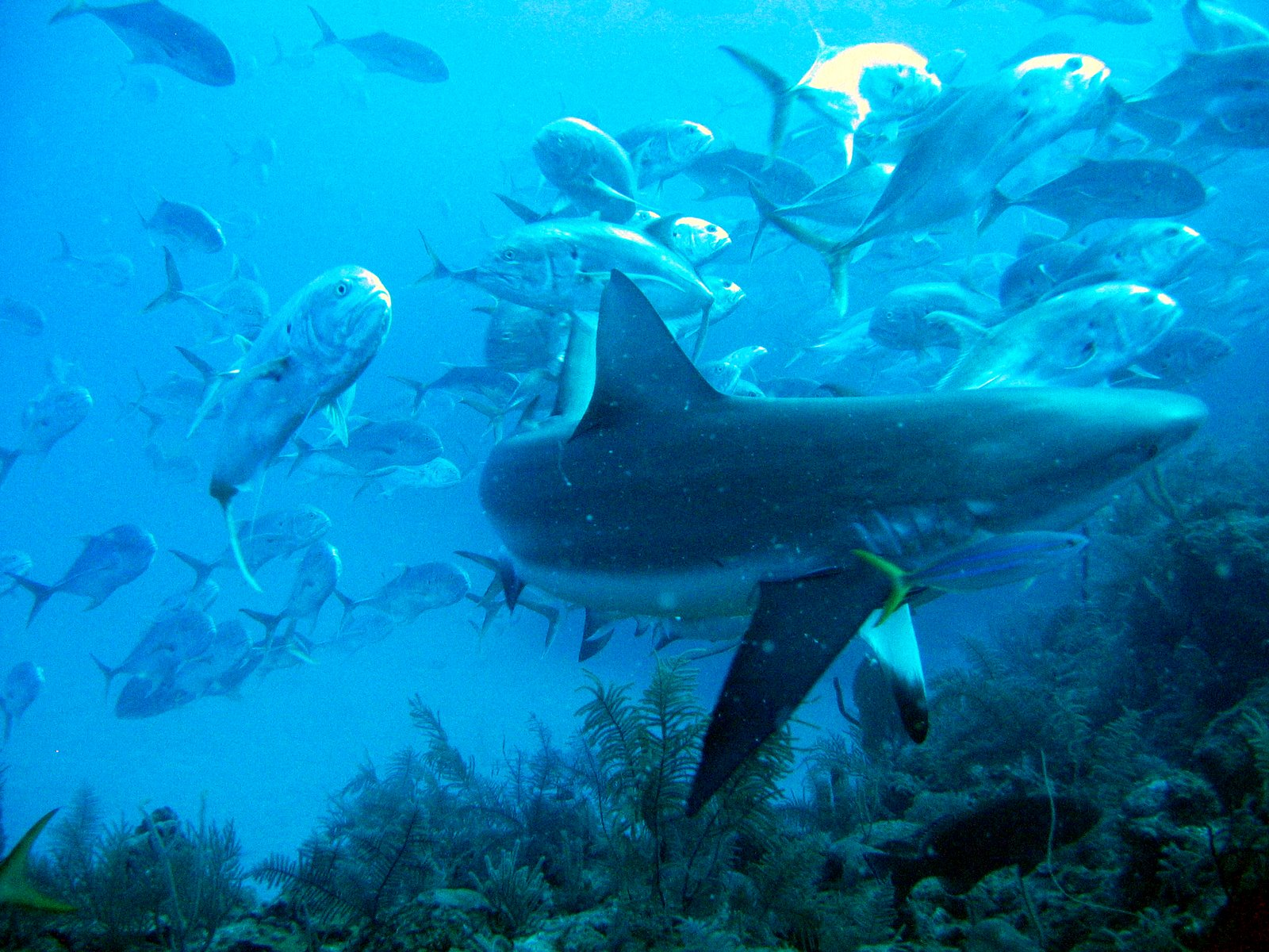 Caribbean reef shark attacked by jackfish